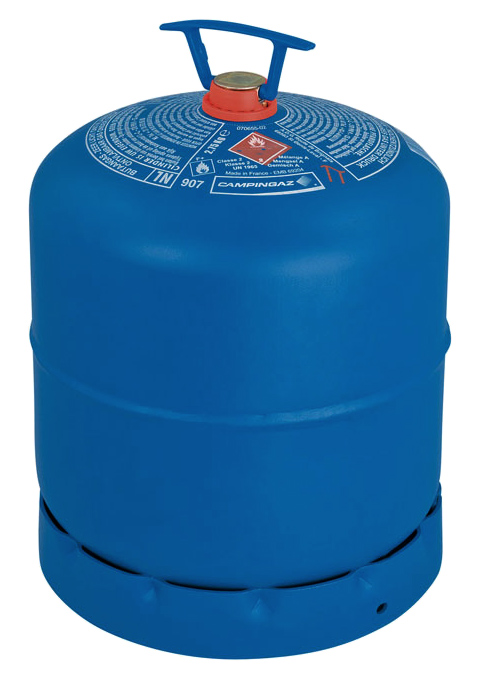 Campingaz 907 gas bottle.